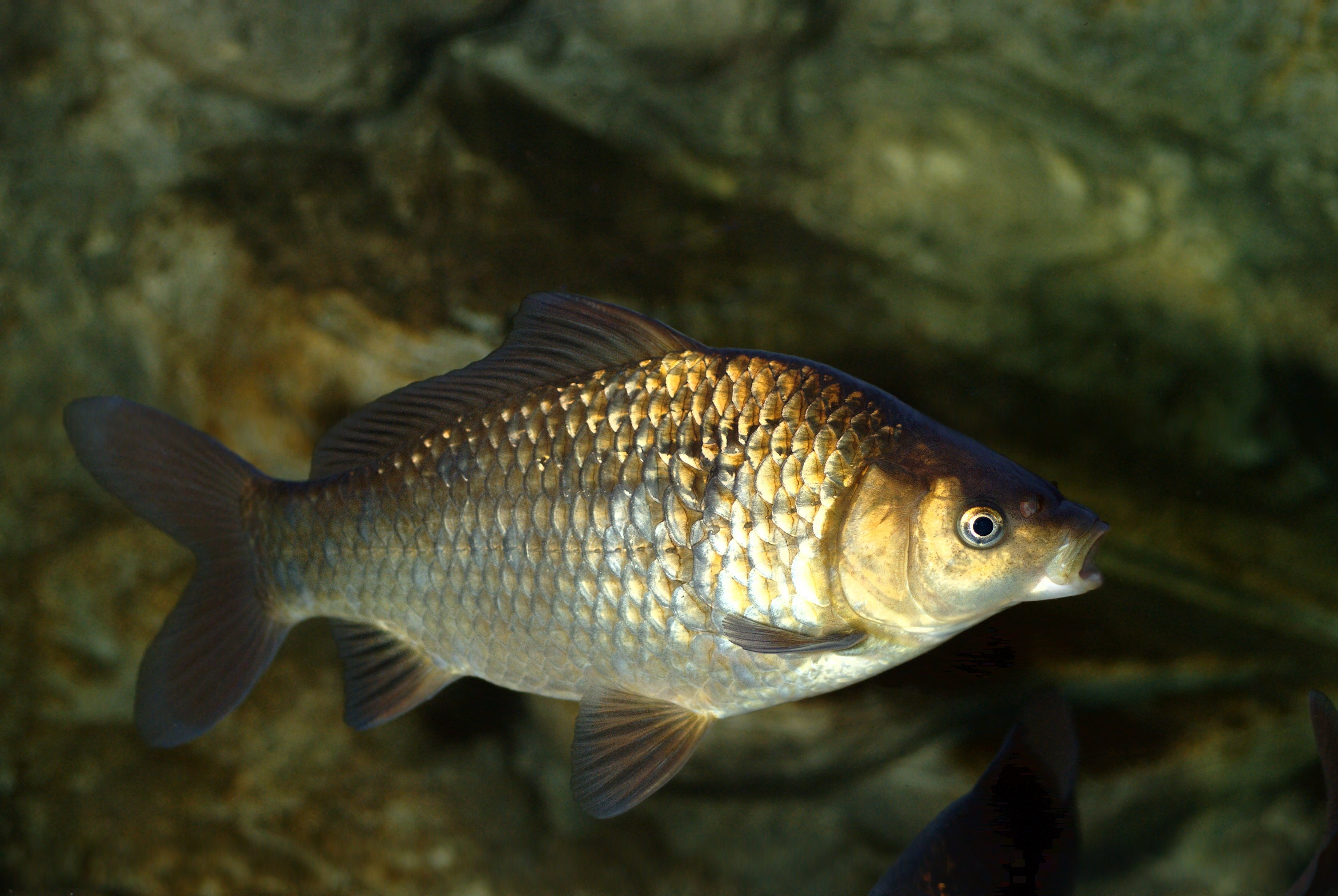 Crucian Carp.